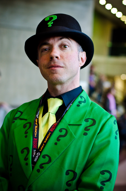 Cosplay at New York Comic Con 2011 (NYCC 2011).